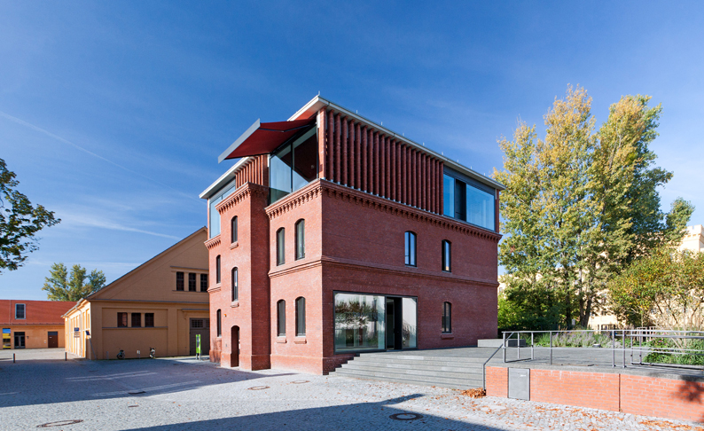 Headquarter of the Federal Foundation for Baukultur in Potsdam (Germany).